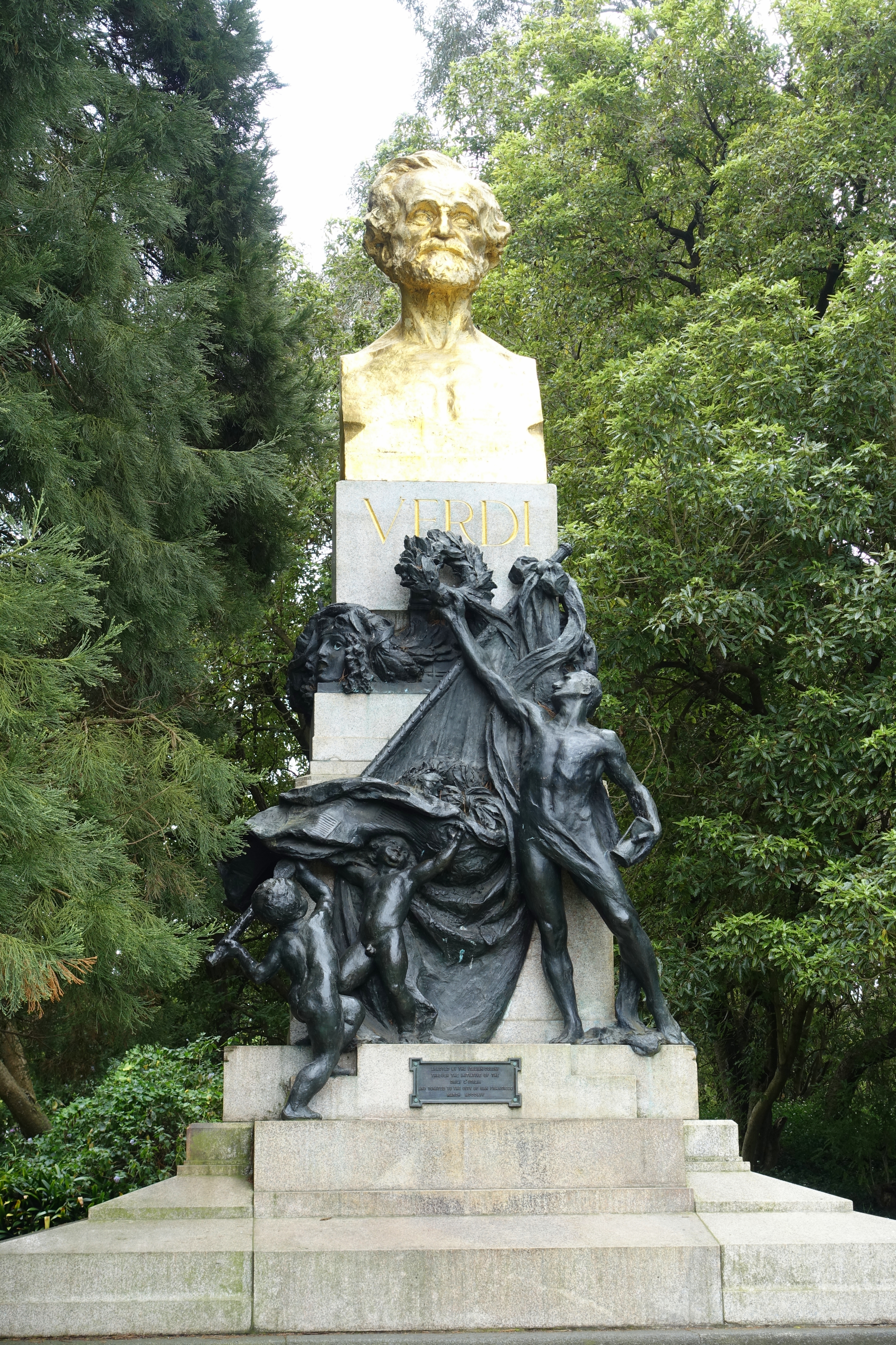 Giuseppe Verdi by Orzio Grossoni - Golden Gate Park, San Francisco, California, USA. Dedicated on March 23, 1914. This artwork is in the public domain because it was first published in the United States before 1923.